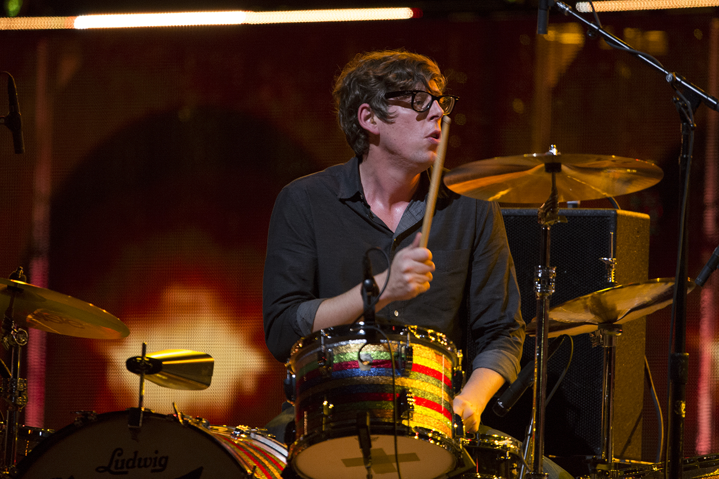 Patrick Carney, drummer of the band The Black Keys, drums during The Concert for Valor in Washington, D.C. Nov. 11, 2014. DoD News photo by EJ Hersom